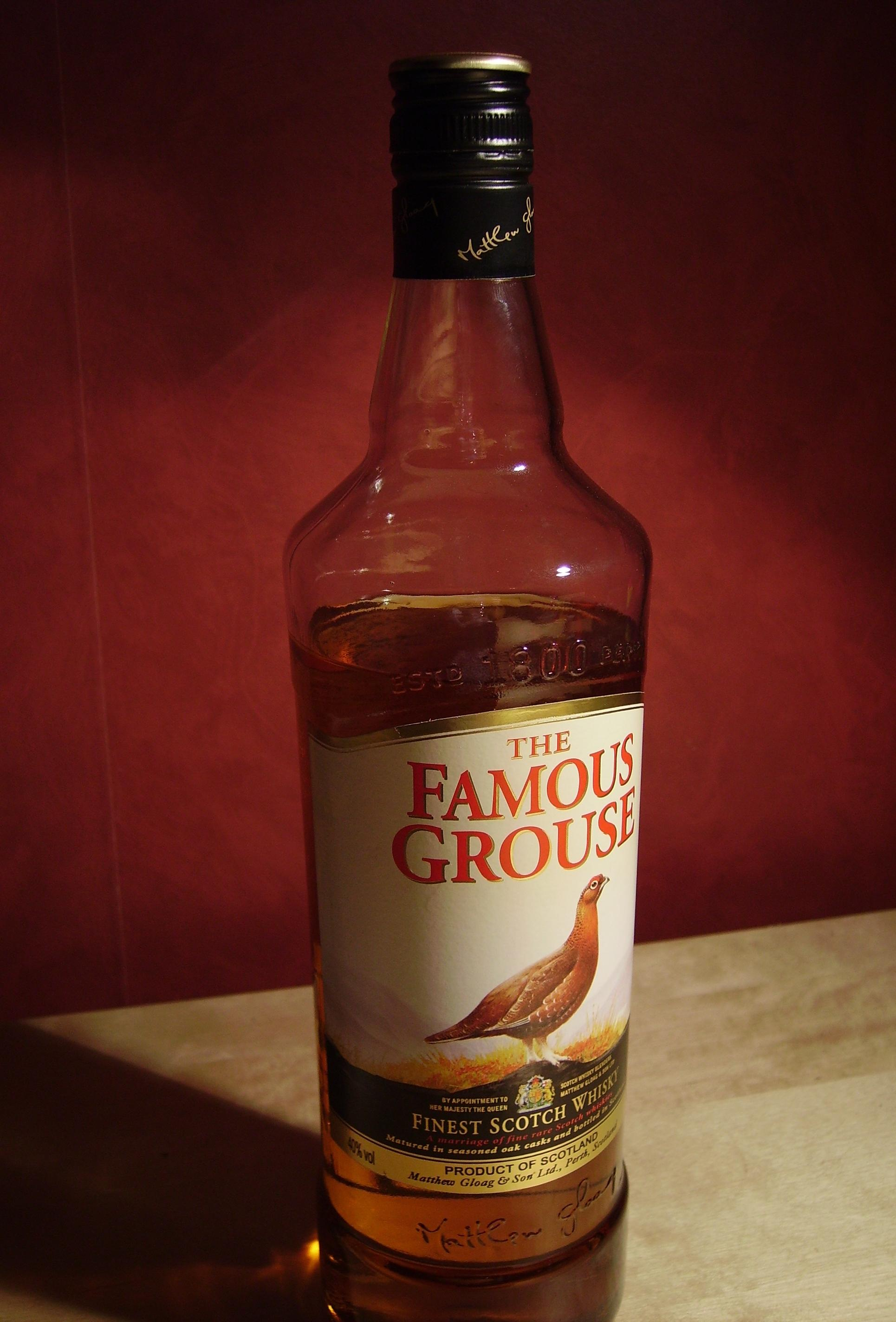 A bottle of the whiskey Famous Grouse